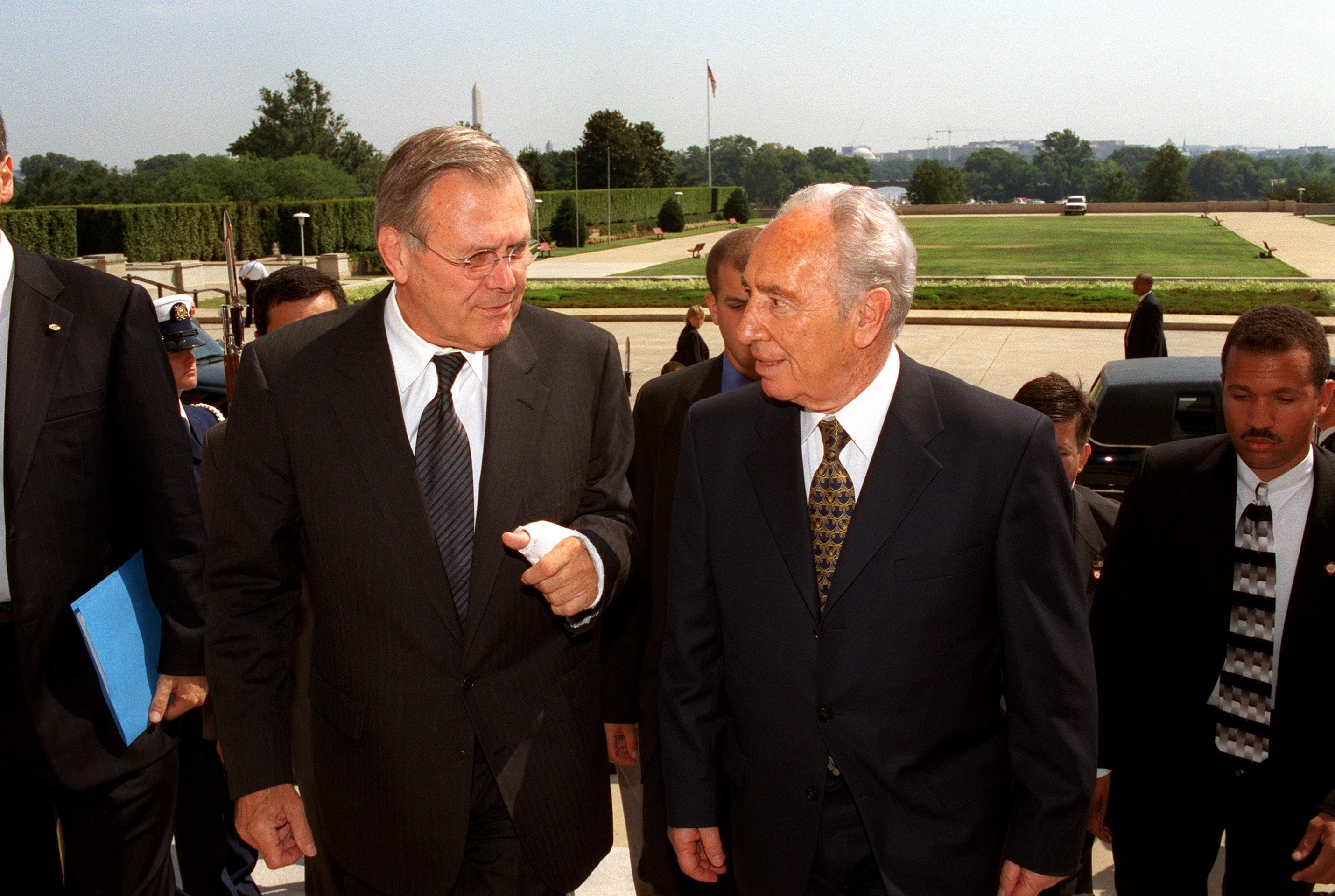 Secretary of Defense Donald H. Rumsfeld (left) escorts Israeli Minister of Foreign Affairs Shimon Peres into the Pentagon on Aug. 1, 2002. The two men will meet to discuss a range of issues of concern to both nations.